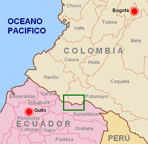 Localization of the 2008 Colombian raid into Ecuador